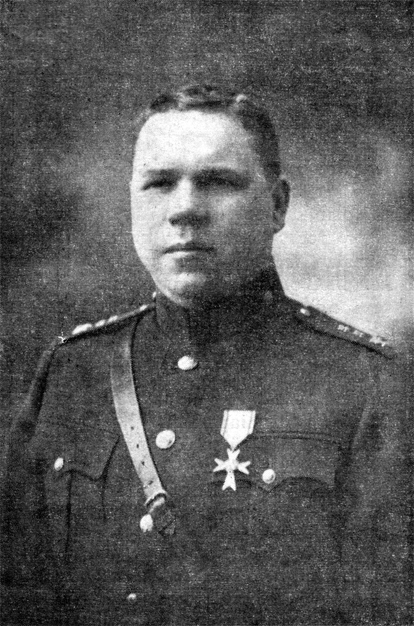 Lieutenant Colonel Erich Johann Friedrich Toffer. Commander of 1st Artillery Group from 15 March 1924.